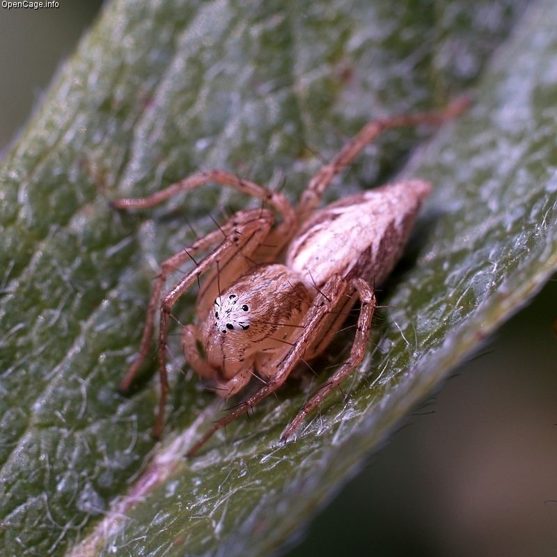 ササグモ Oxyopes sertatus Lynx spider Location 兵庫県高砂市 Copyright OpenCage